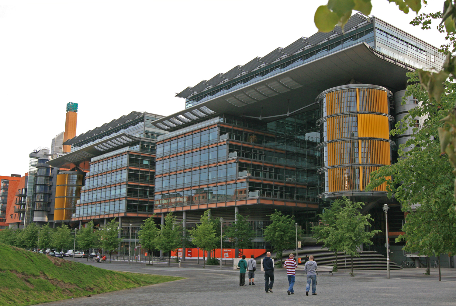 Arkaden shopping mall, Potsdamer Platz, Berlin